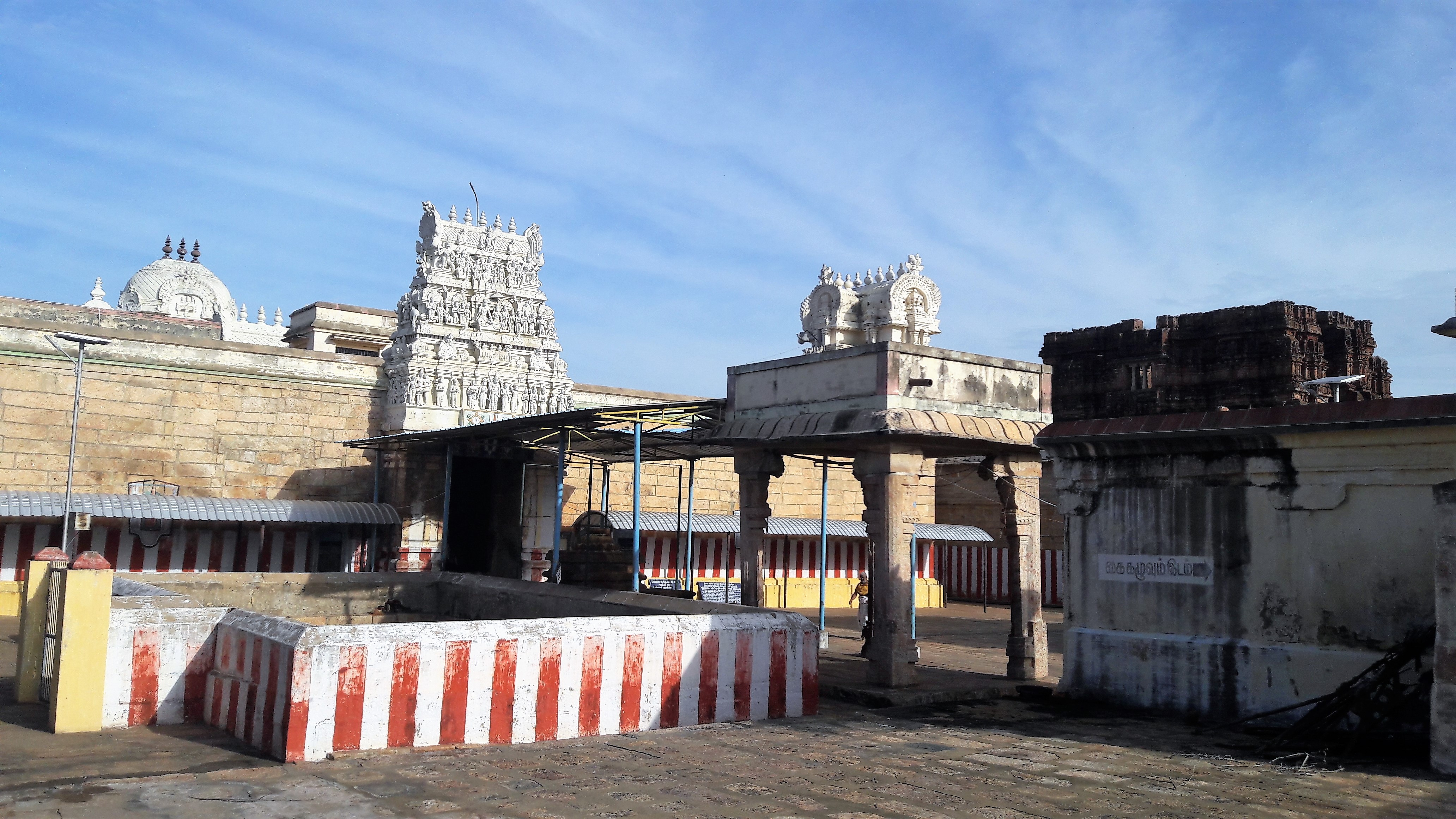 Pundarikakshan Perumal temple, Thiruvellarai